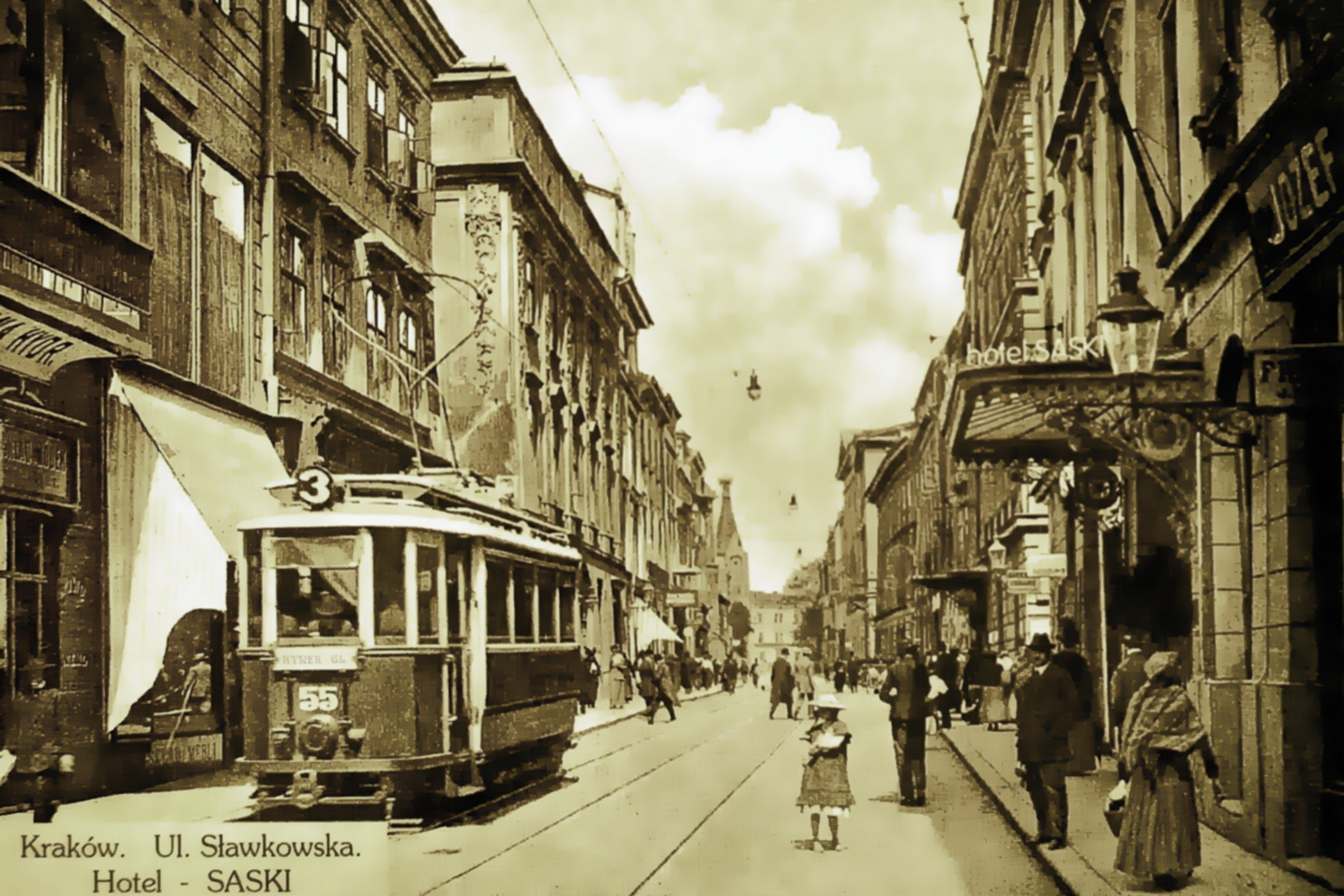 Saski Hotel and Sławkowska street in Cracow